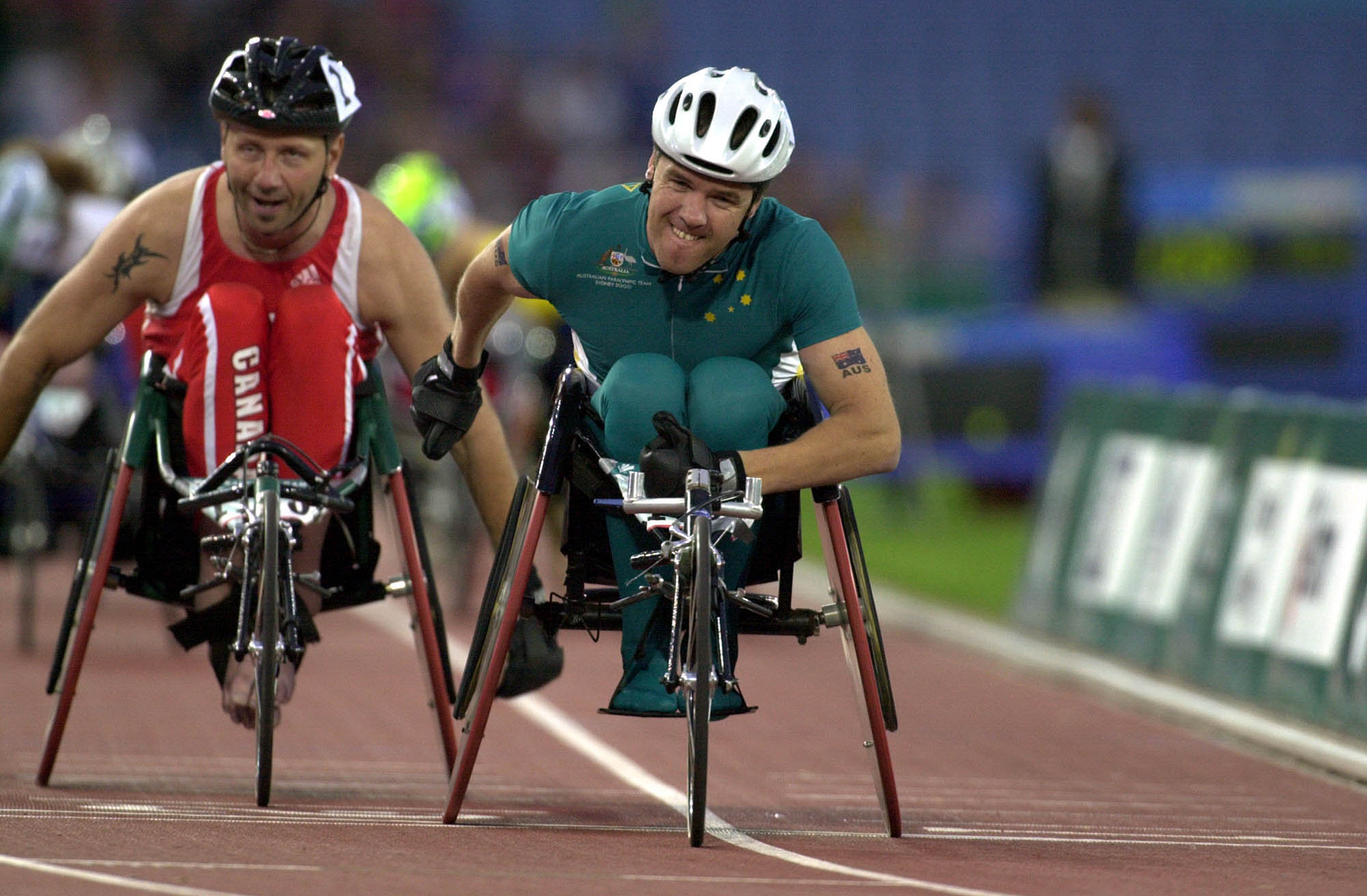 Action shot of Australian wheelchair racing athlete Greg Smith (shown right) during the 800 m T52 final at the 2000 Sydney Paralympic Games, Day 04. Smith won gold in this event.